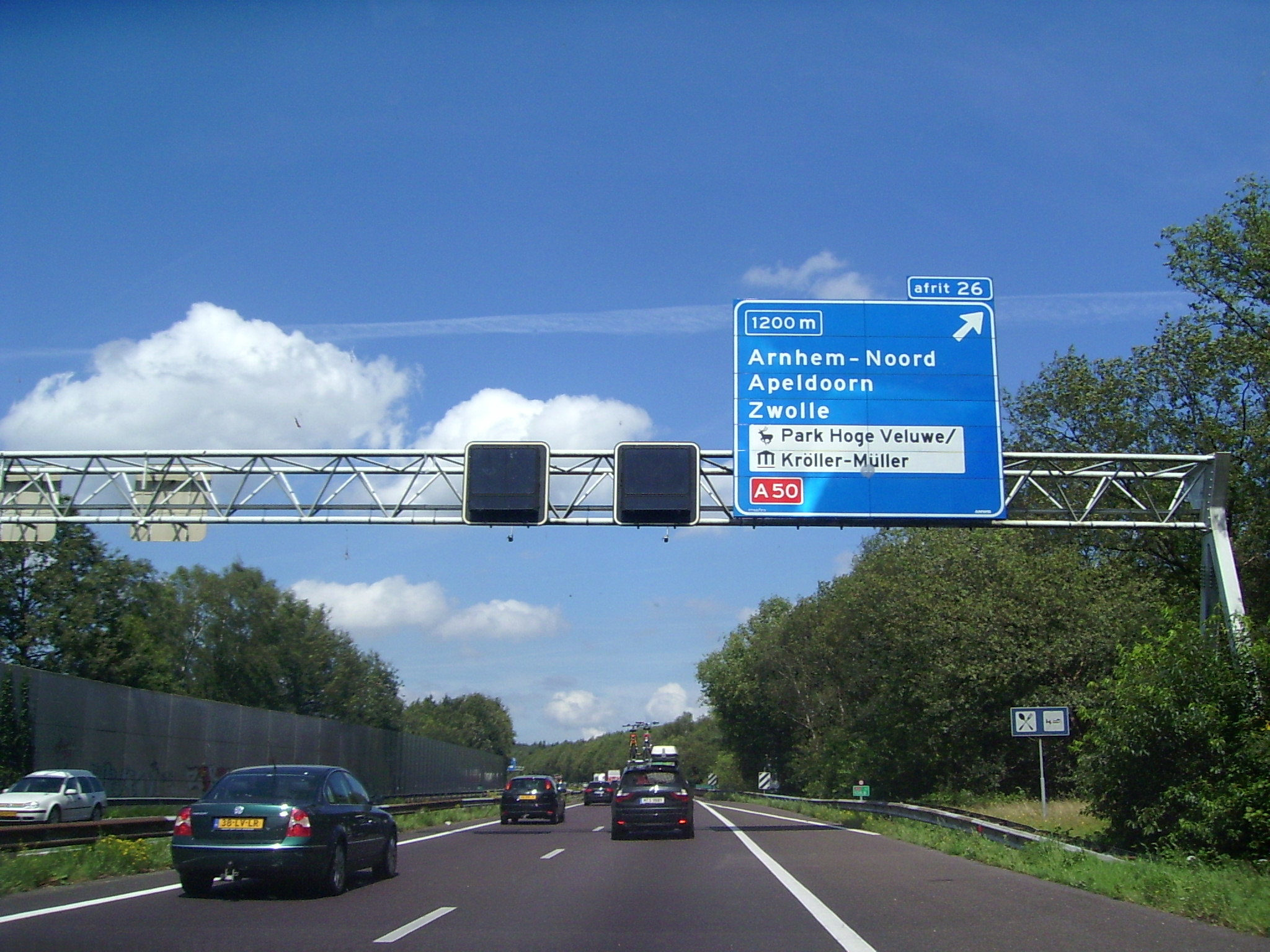 The Rijksweg 12 near Arnhem before the cross Waterberg.